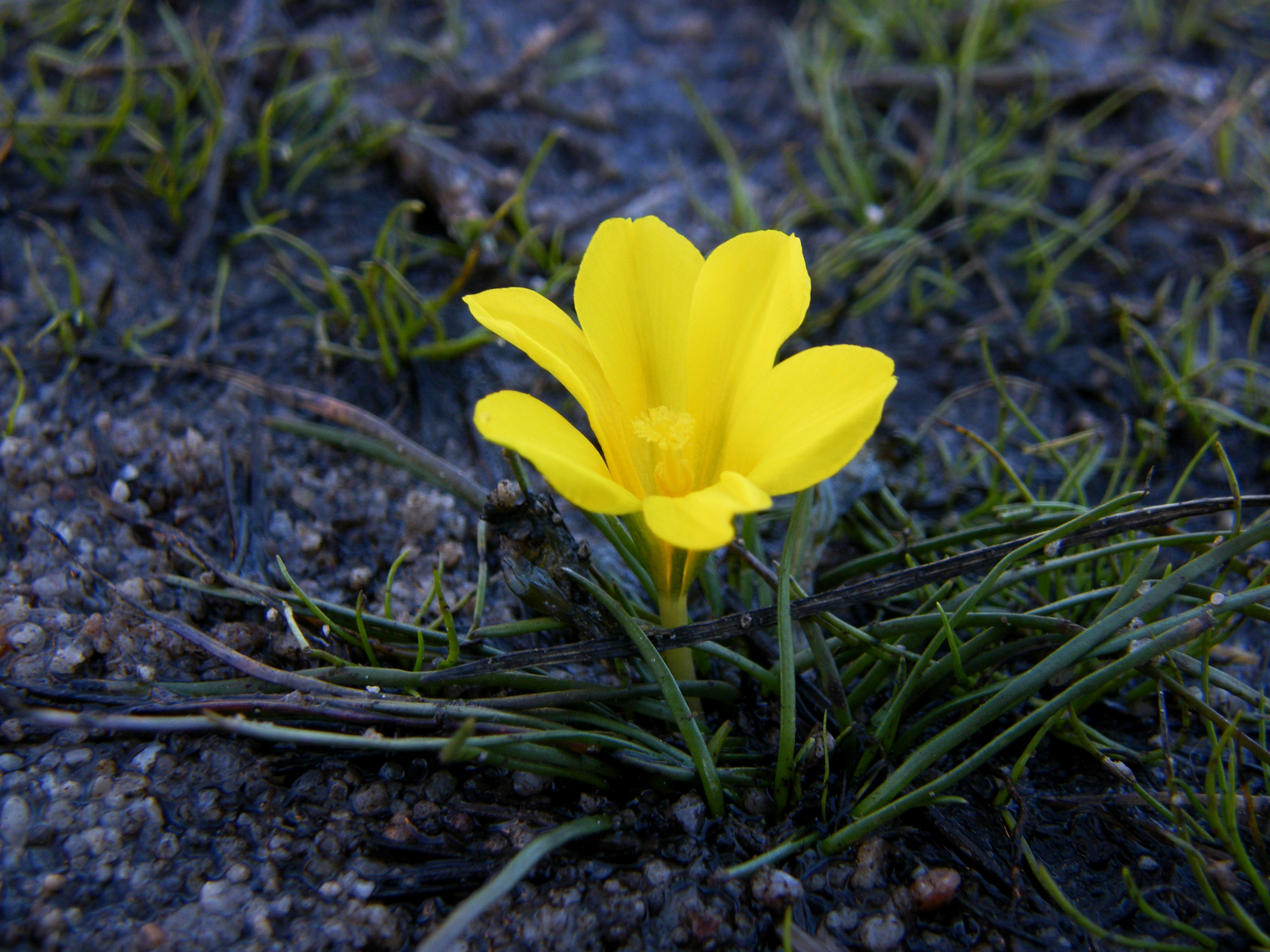 Formerly Galaxia fugacissima (Linnaeus fil.) Goldblatt.